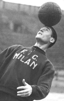 Liedholm in Milans training